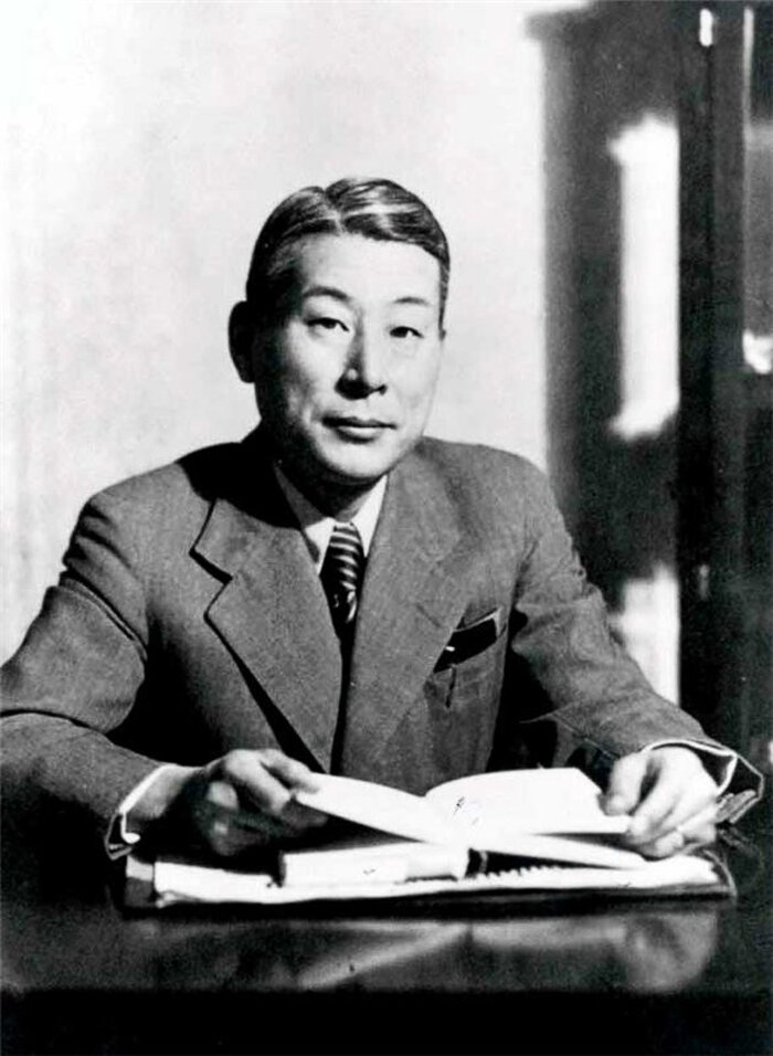 SUgihara